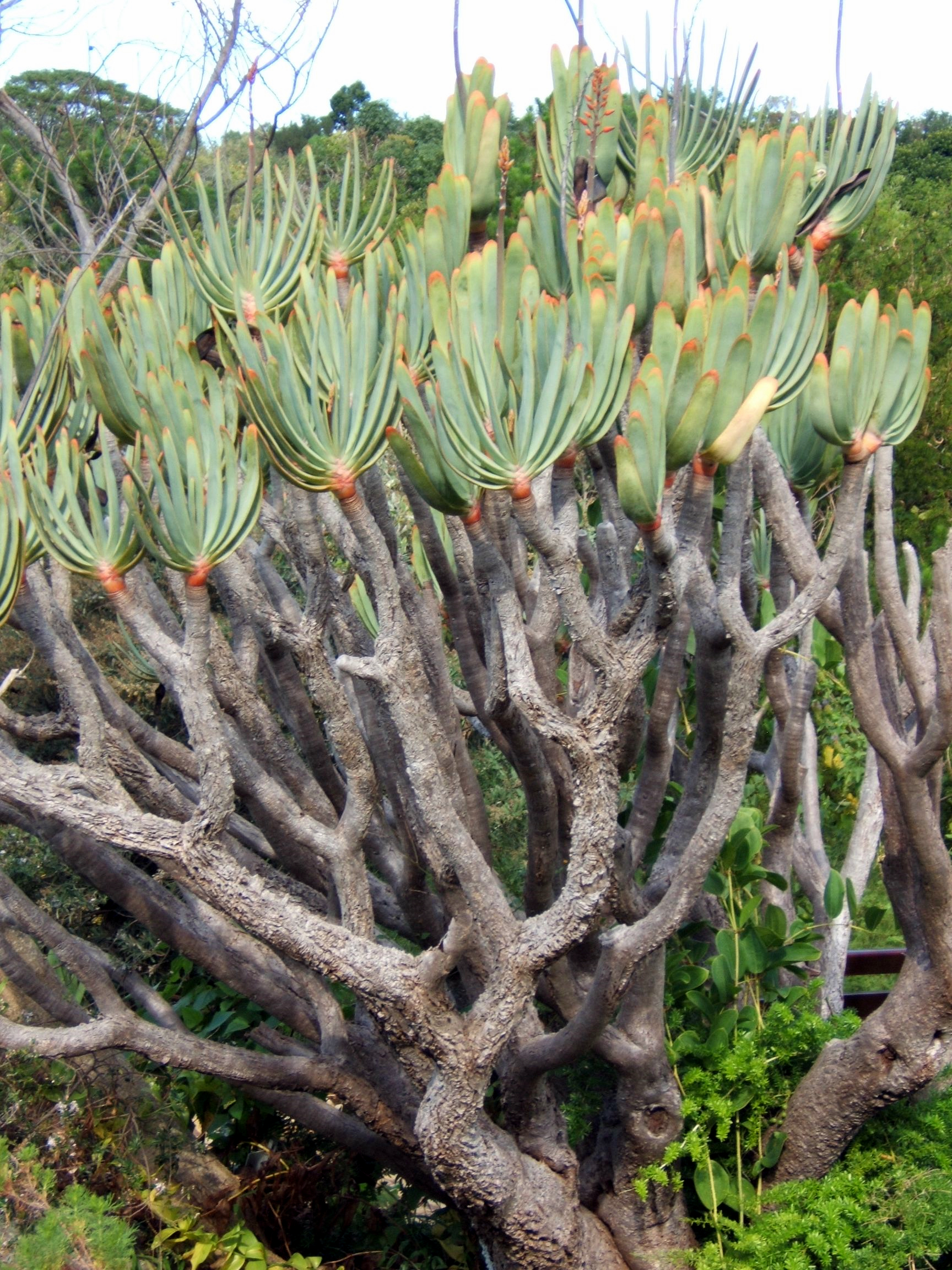 Aloe plicatilis at Kirstenbosch Botanic Gardens, South Africa